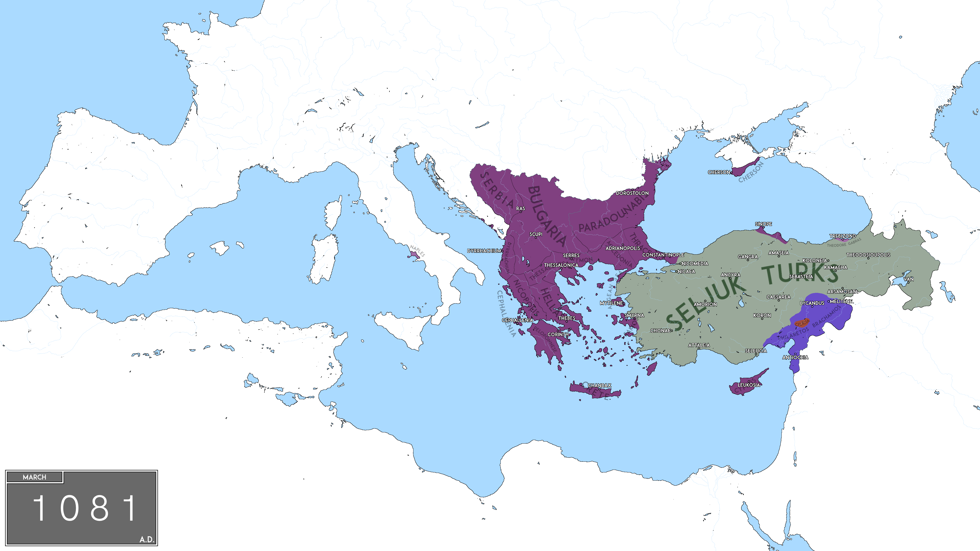 Map of The Eastern Roman Empire under The Doukas Dynasty.